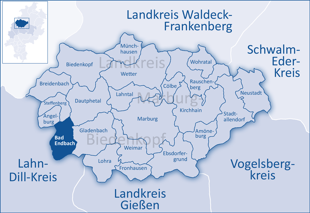 The map shows the municipal territory of Bad Endbach in the district of Marburg-Biedenkopf.